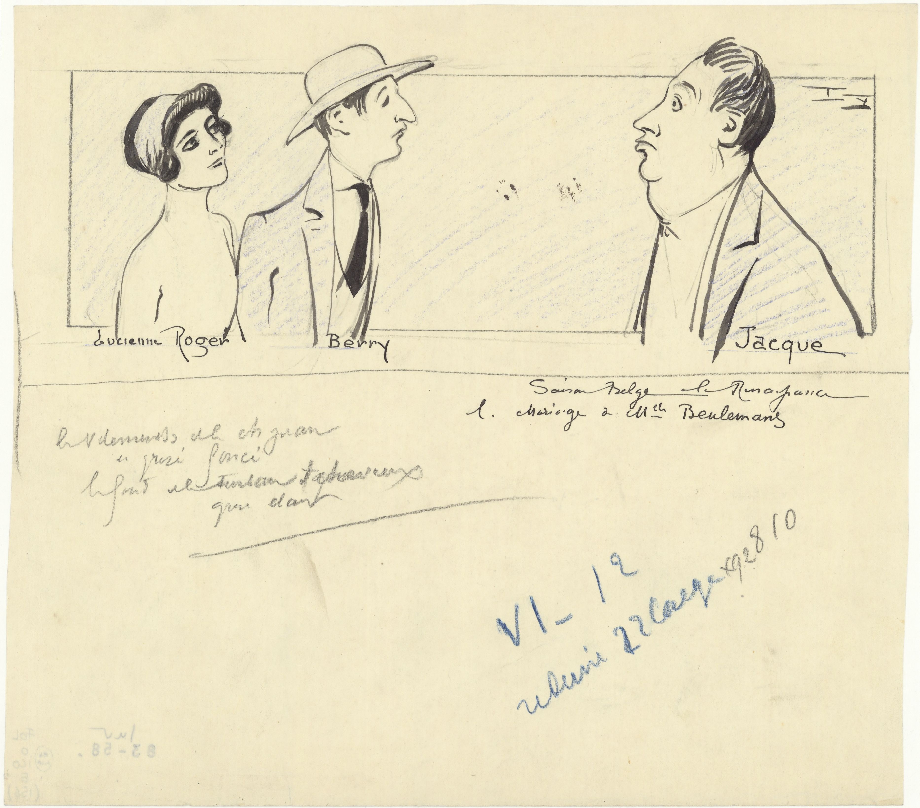 Lucienne Roger, Jules Berry and Jacque playing Le Mariage de mademoiselle Beulemans at Paris' Théâtre de la Renaissance in 1910